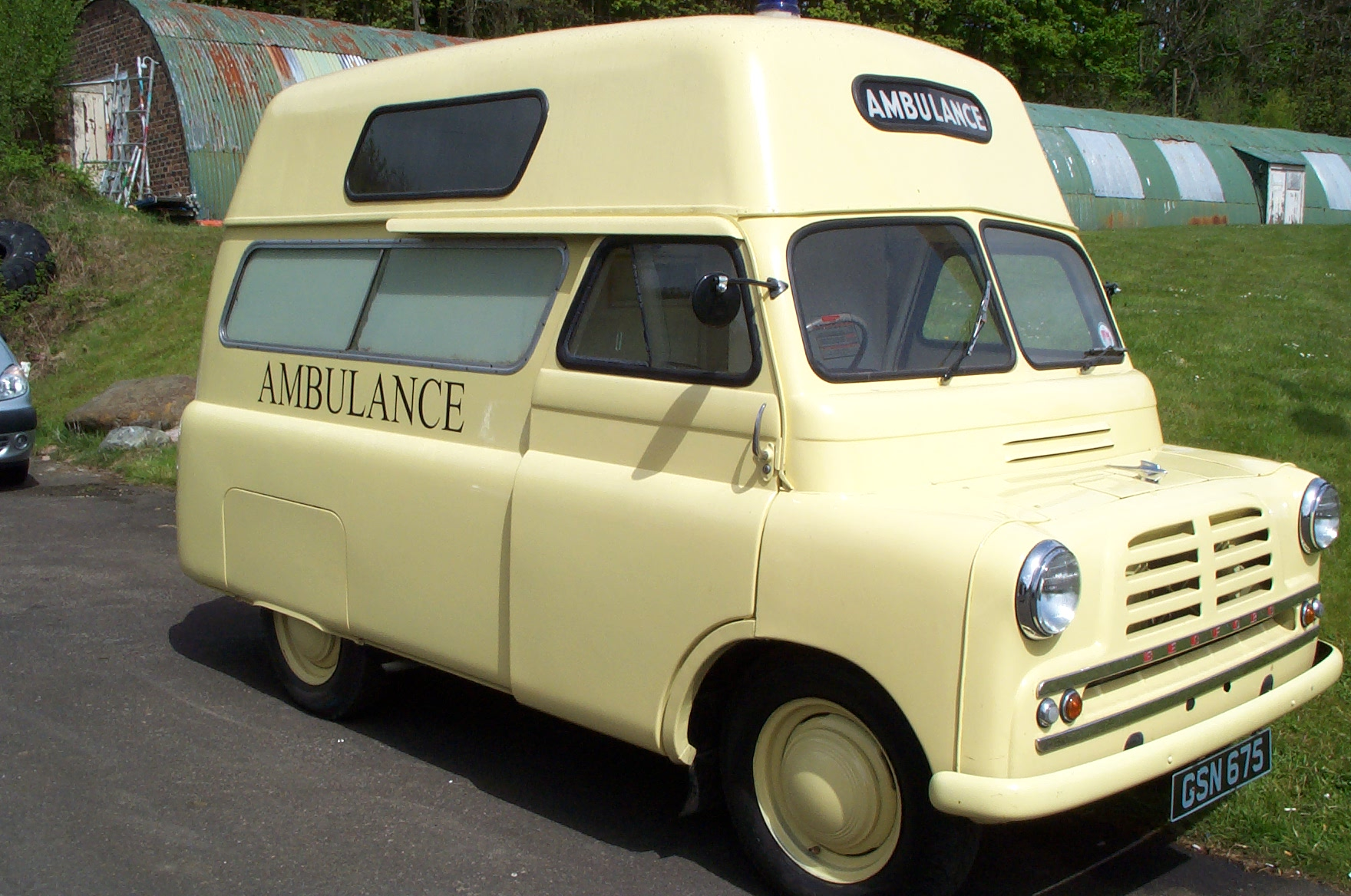 Bedford CA Ambulance